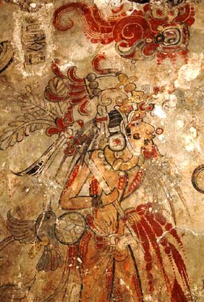 Mural fragment in San Bartolo, Guatemala, rediscovered 2003, presented at the Palacio Nacional de La Cultura, May 2006. Pre-Classic Maya art